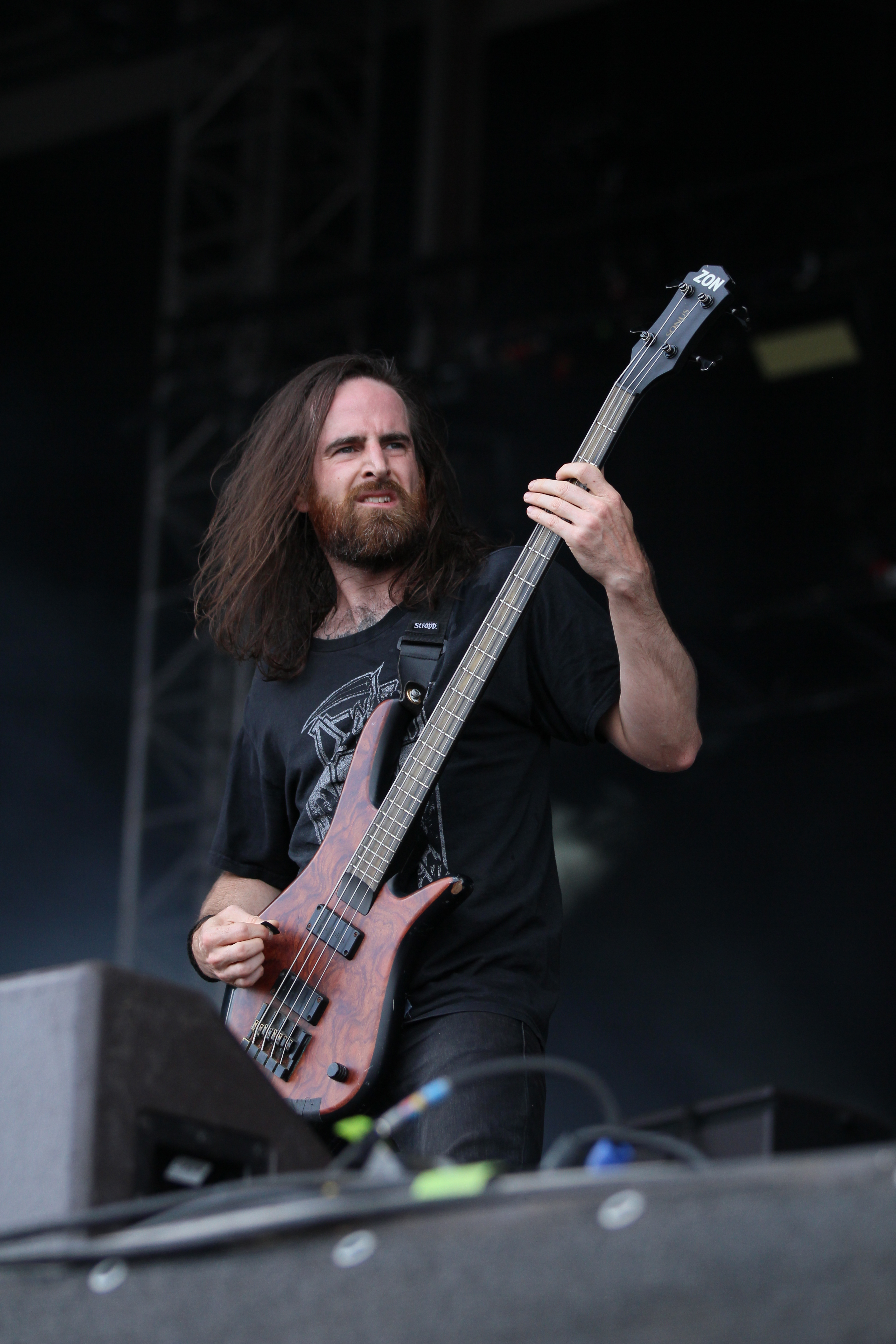 The American mathcore band The Dillinger Escape Plan at the With Full Force festival 2014 in Roitzschjora/Germany